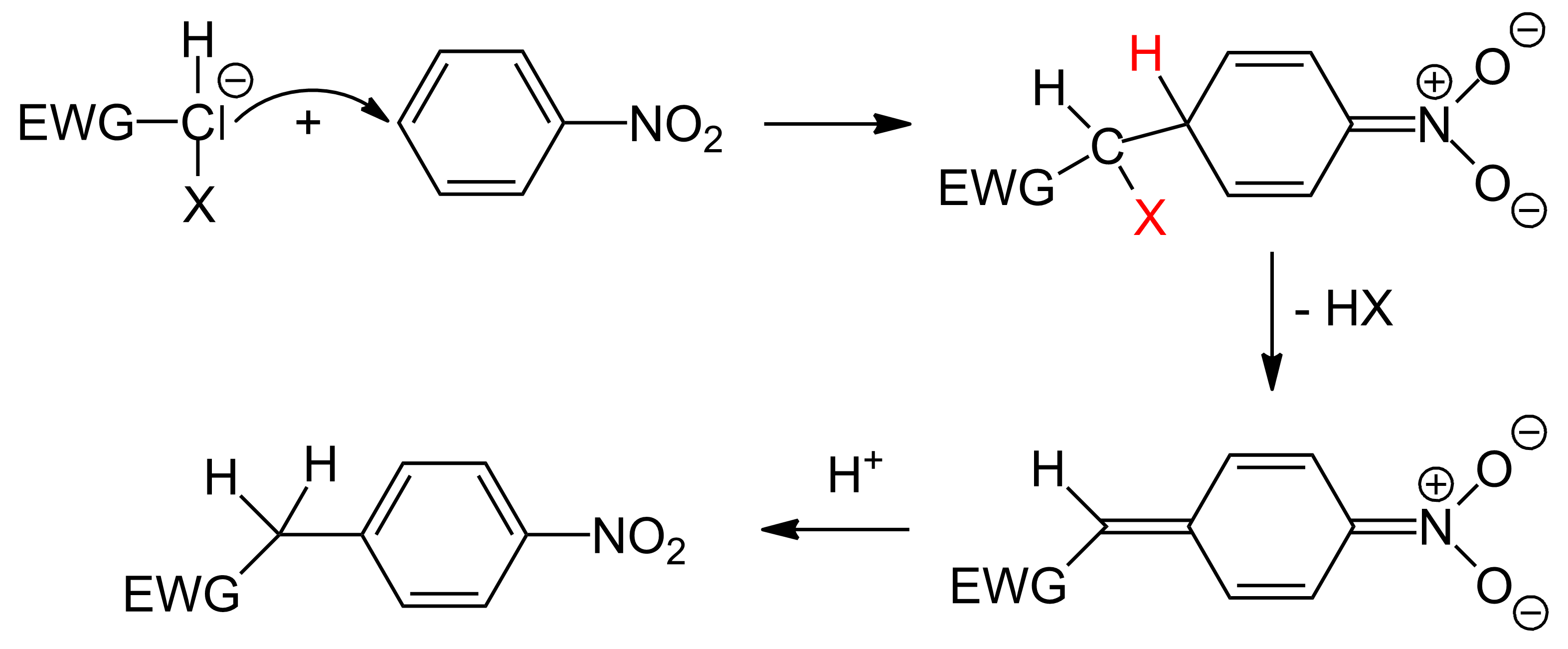 Example of a vicarious nucleophilic aromatic substitution